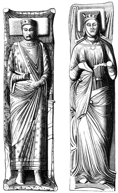 Effigies of Henry II. and Queen Eleanor at Fontevrault